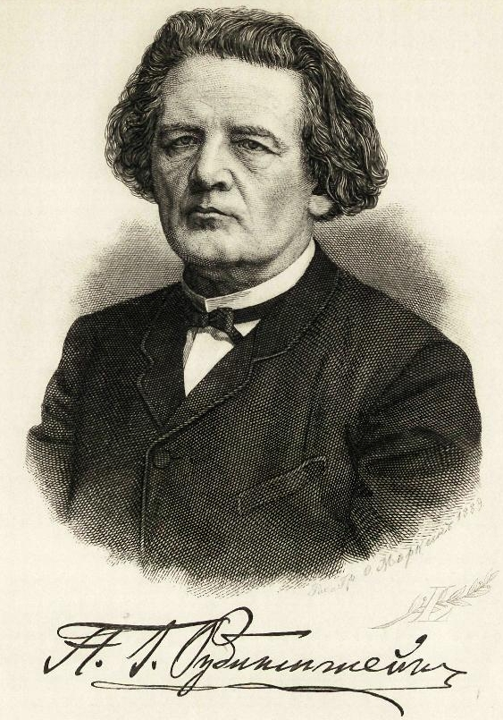 Anton Rubinstein